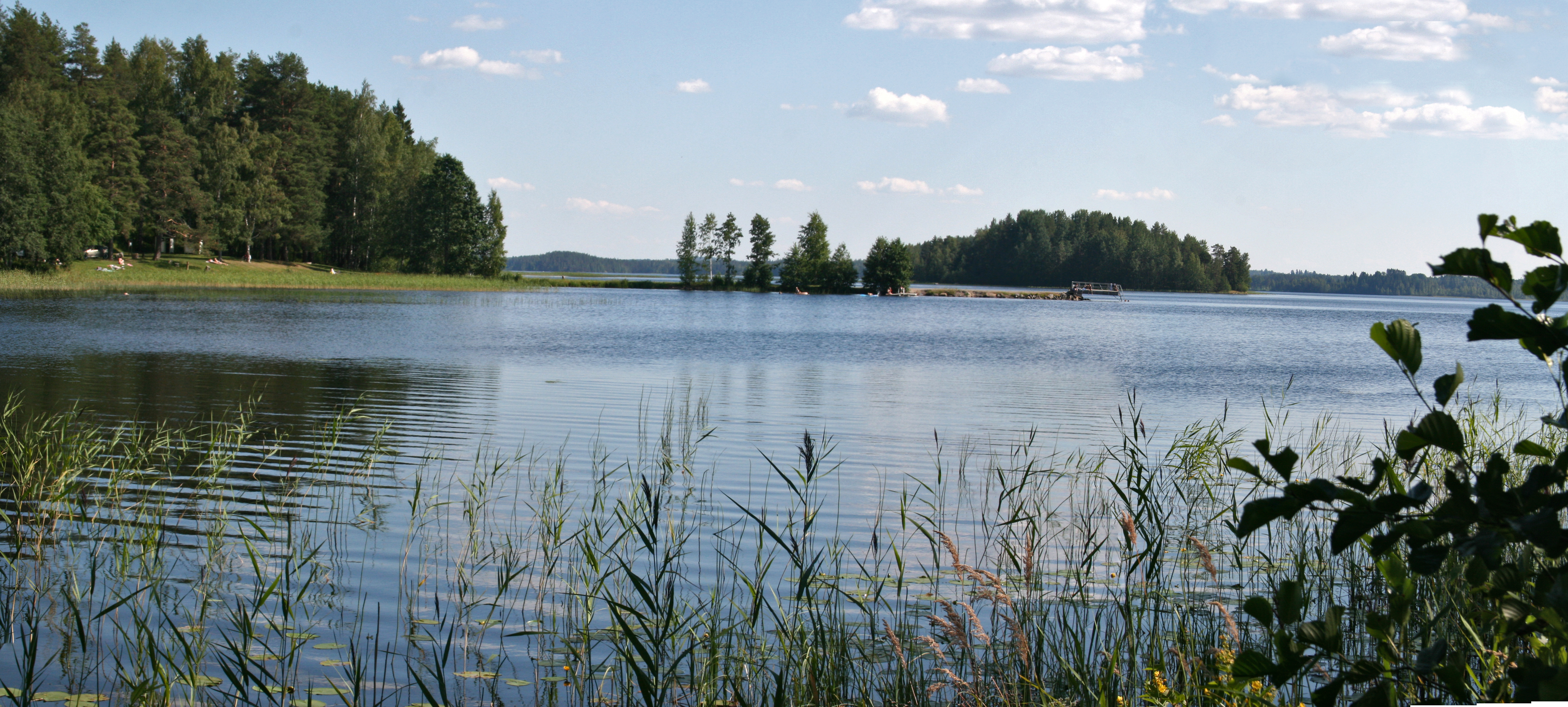 Lake Jukajärvi in Juva, Finland, at background Lehtisaari island.